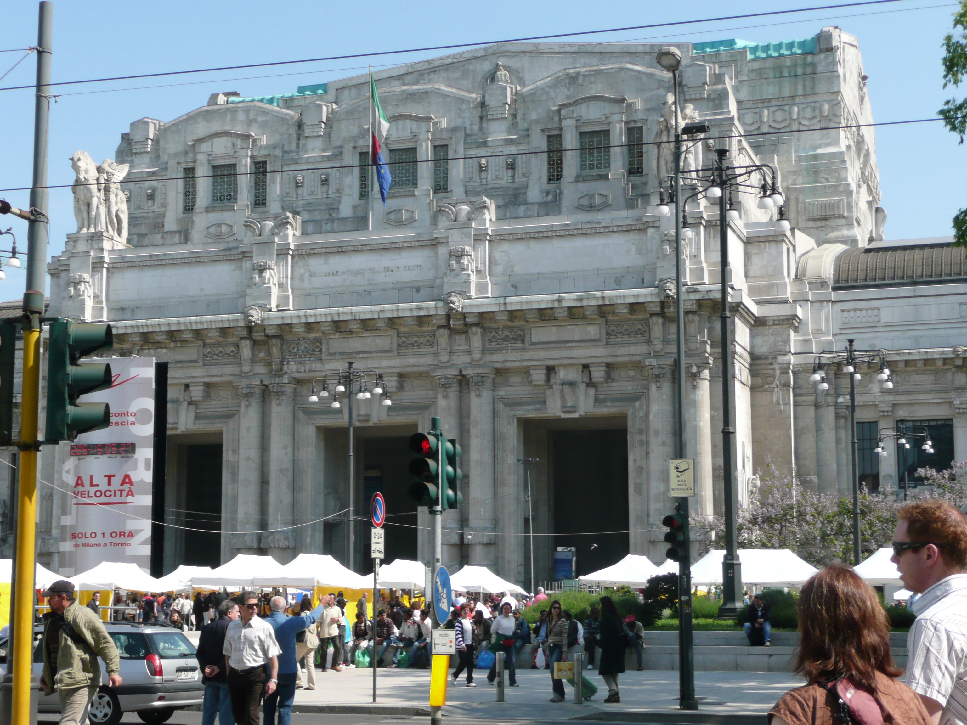 Milano Centrale